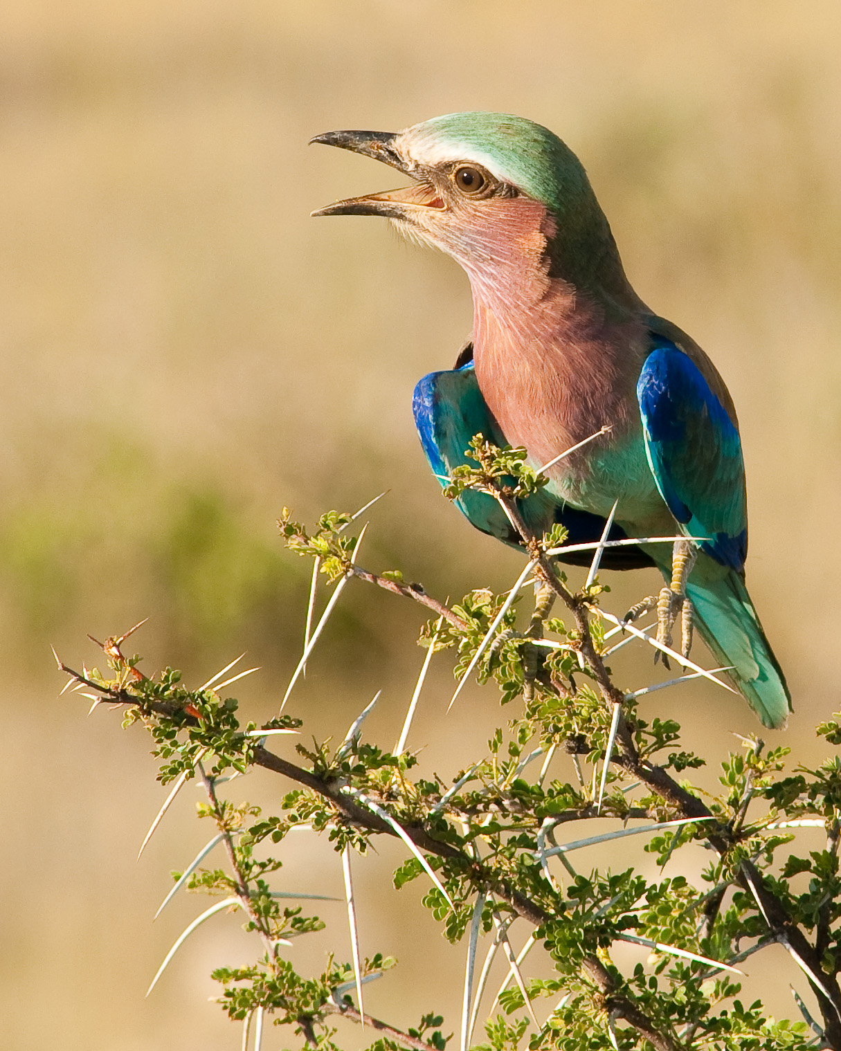 Lilac-breasted Roller taken at Etosha National Park, Namibia